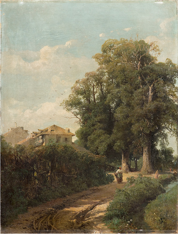 The painting entered the Istituto Bancario Italiano (IBI) Collection from the antique market, and can be identified as the canvas shown in 1870 at the 29th Turin Esposizione della Società per le Belle Arti. It is one of the first works executed by the painter after he had just finished studying at the Brera Academy and was taking part in the exhibitions held in Genoa, Turin and Milan, where he showed works inspired by the places and rural life in the Milanese and Brianza countryside. In this painting in the Collection, the young Gignous depicts the lush greenery near an irrigation canal where the local women did their washing. Beyond the path running alongside the canal the first houses on the outskirts of the city rise up: a sign of the urbanisation process that was gradually spreading to areas previously destined mainly for agriculture. It was precisely to the countryside just outside the city that the painter used to go with his friends Achille Tominetti and Luigi Rossi to paint from life. These years of intense activity produced works like this Environs of Milan and also Rustic Courtyard in the Vicinity of Milan (Milan, Museo di Milano), which won a prize at the annual Brera exhibition in 1870. In these canvases, Gignous’s landscape painting is still influenced by the late Romantic academic style, but his observation of life is already painstaking and sensitive: using a detailed technique he focuses on the foliage of the trees and the hedges, skilfully varying the tonalities of green to depict the light from the clear sky reflecting on the vegetation and the roofs of the houses. In the following years, his constant practice of painting en plein air enabled him to achieve freer handling by embracing and exploring the developments of Lombard Naturalism.